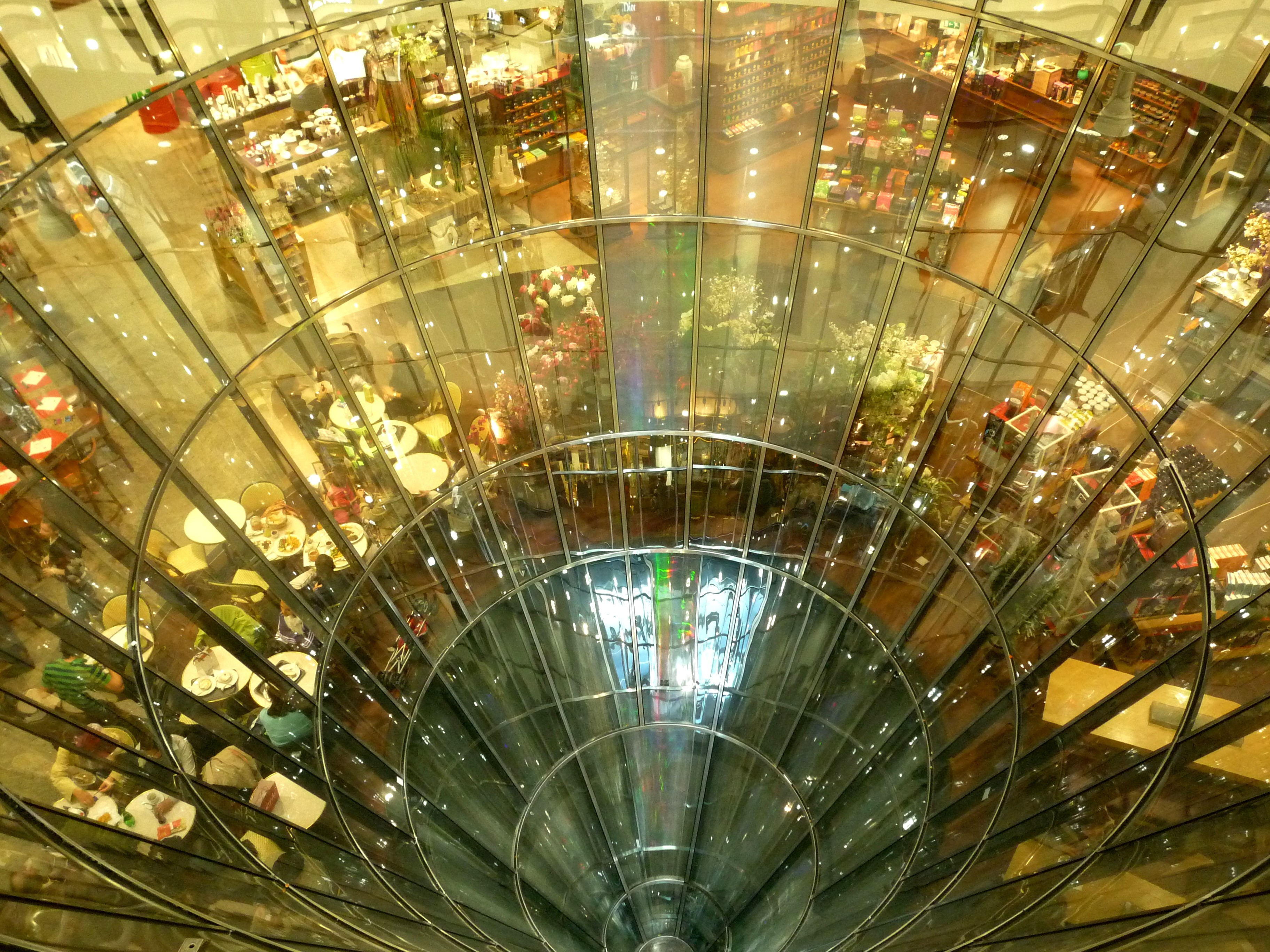 The warehouse "Galeries Lafyette" in Berlin, Friedrichstraße. Detail of the inside decoration.